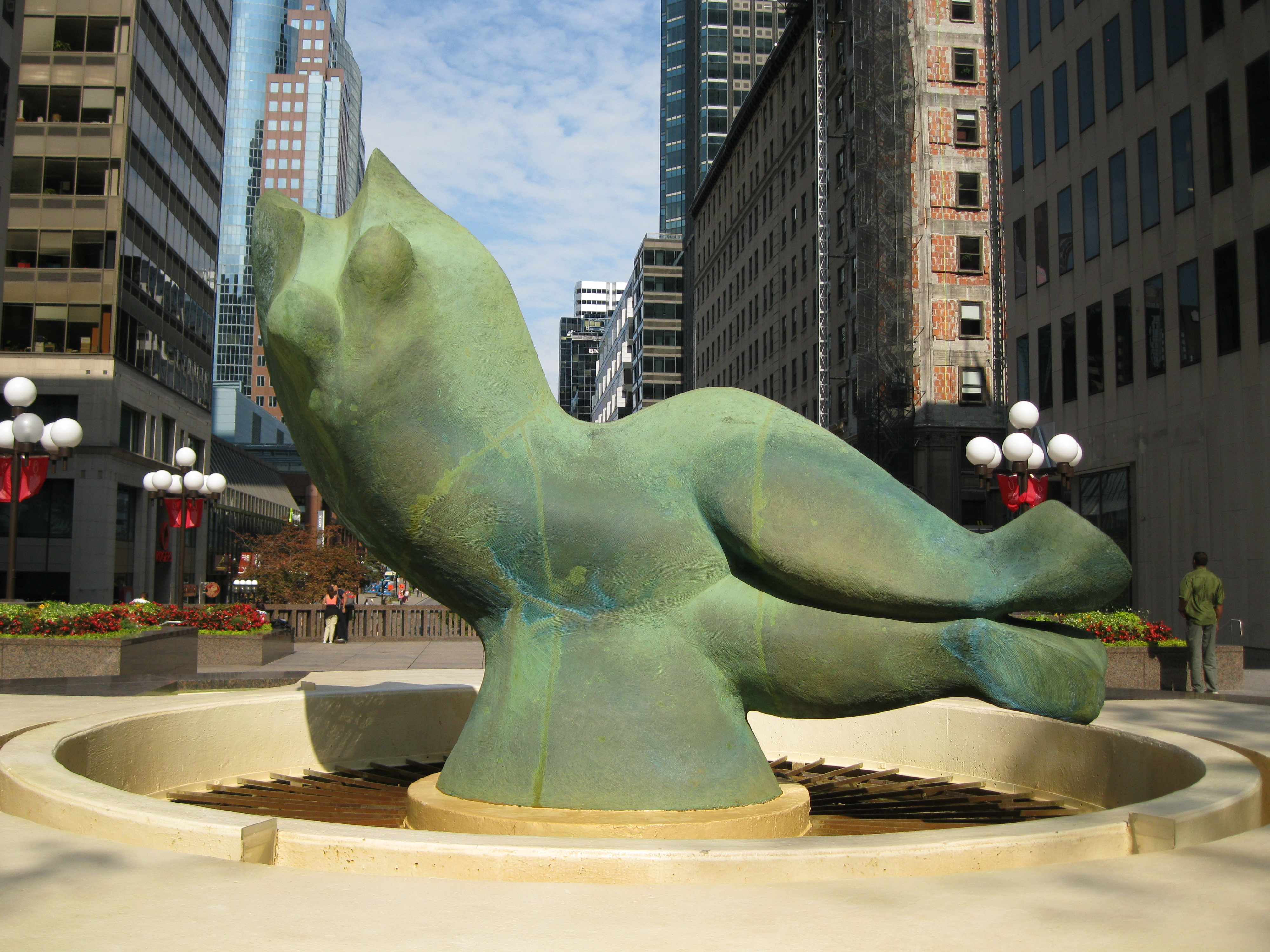 The sculpture titled Feminine Landscape (1972) by artist Gerald Gladstone is located on the concourse of Place Ville Marie, downtown Montreal